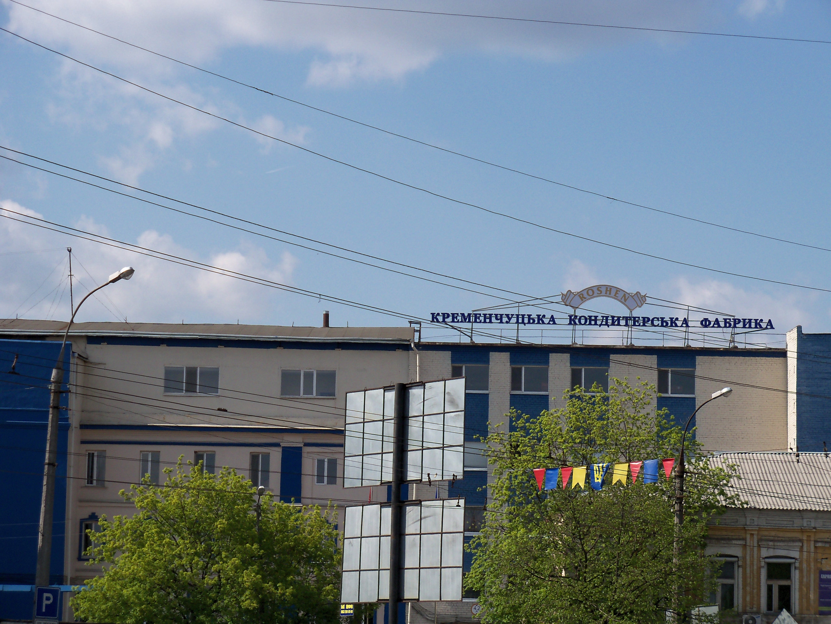 Kremenchuk confectionary